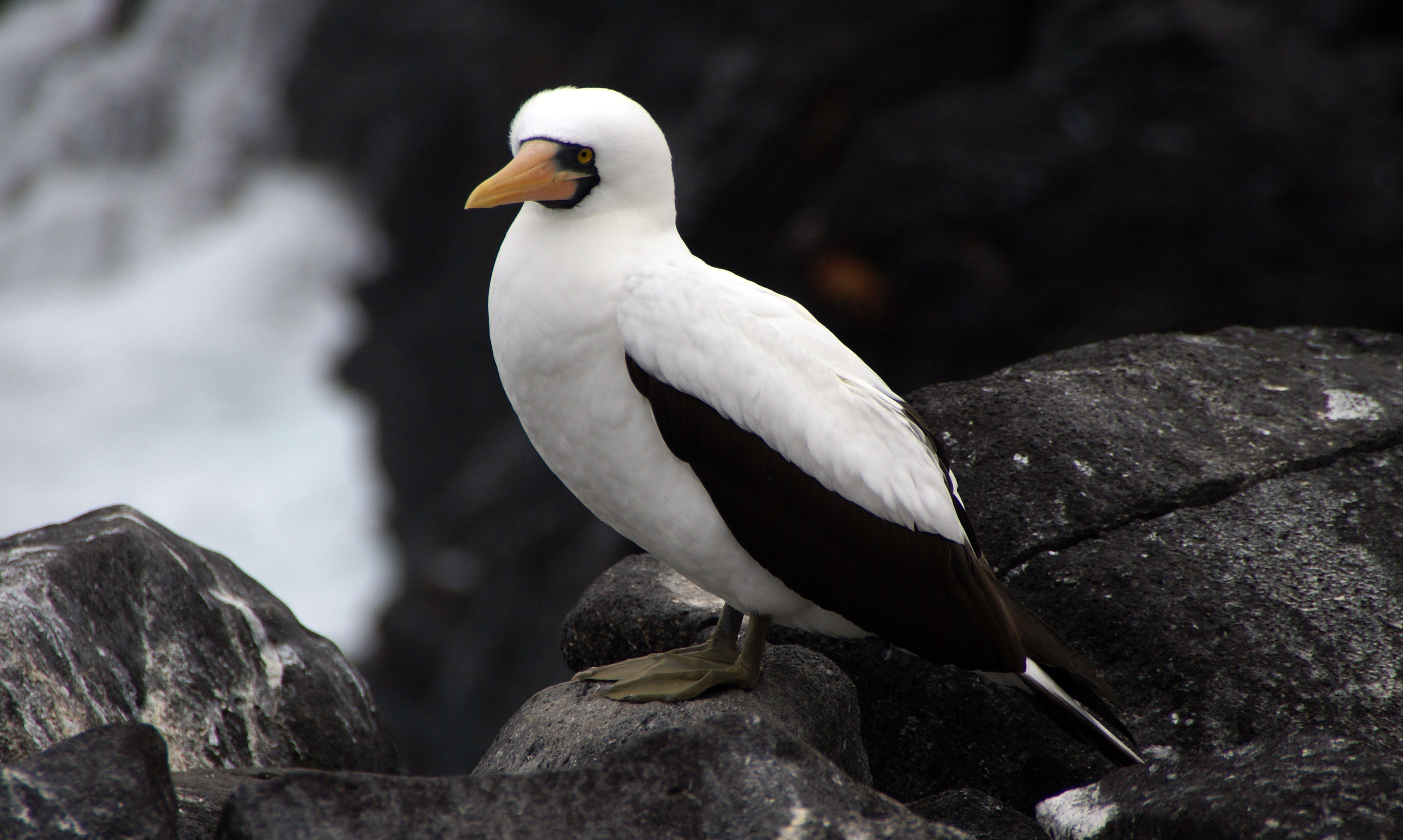 Nazca booby (Sula granti) on Espanola, Galapagos Islands.